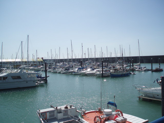 Brighton Marina